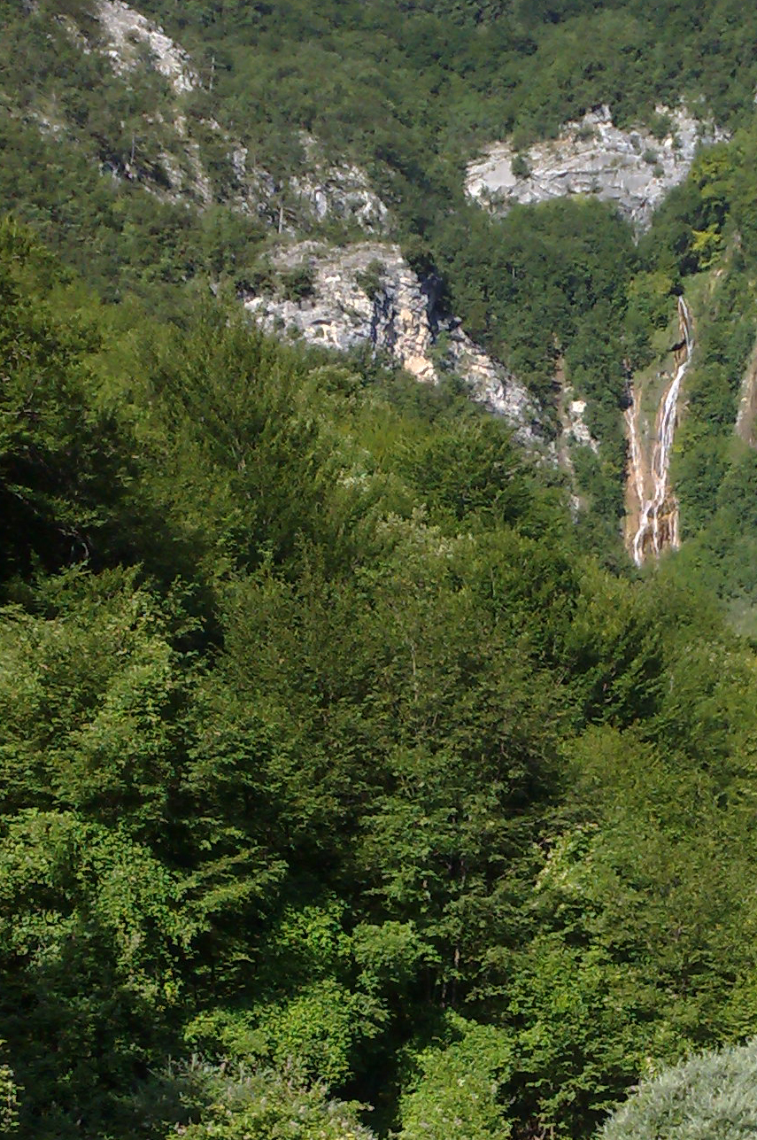 Schioppo waterfall, Morino, Italy